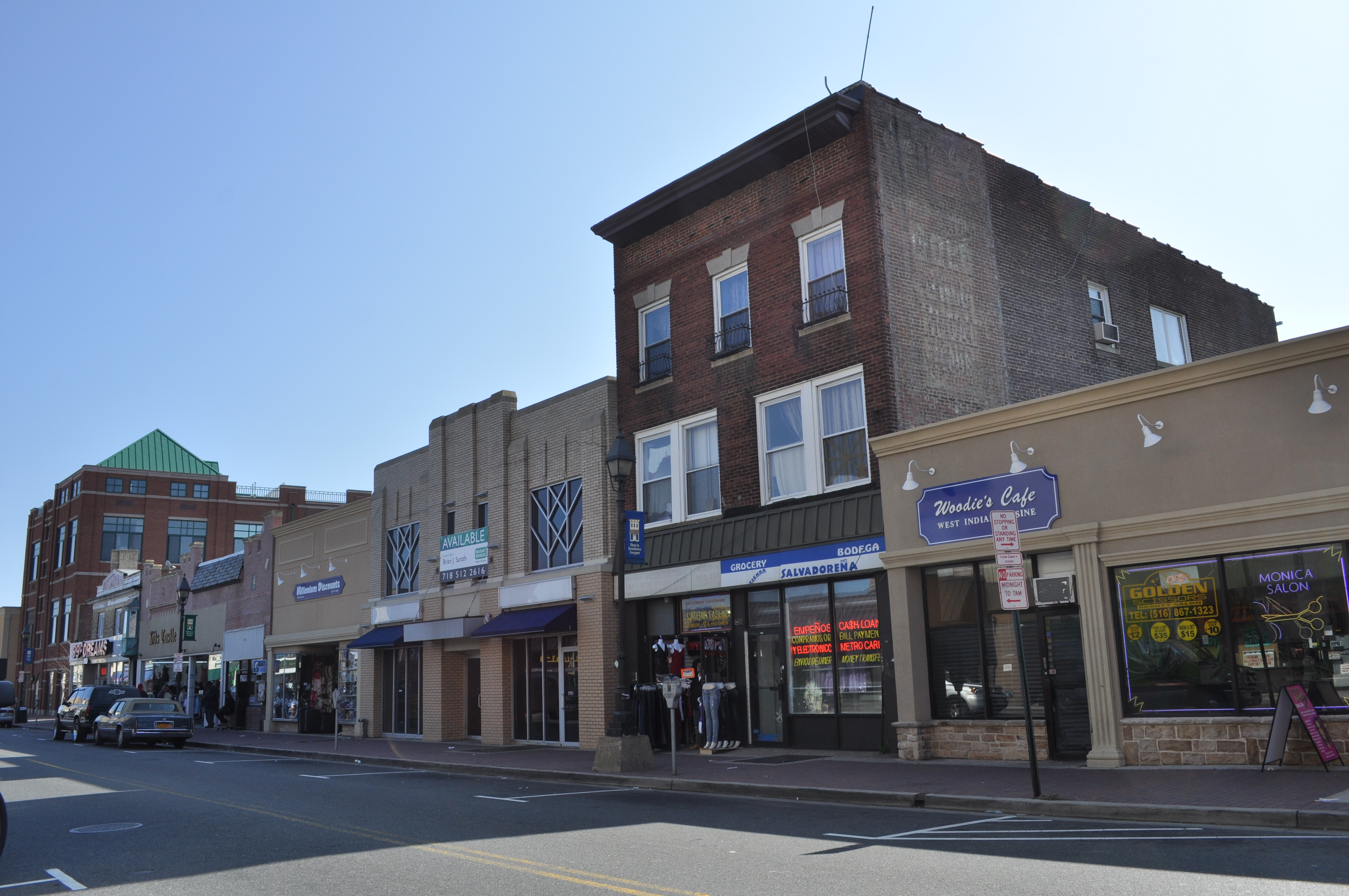 South Main Street, downtown Freeport, Long Island, New York.